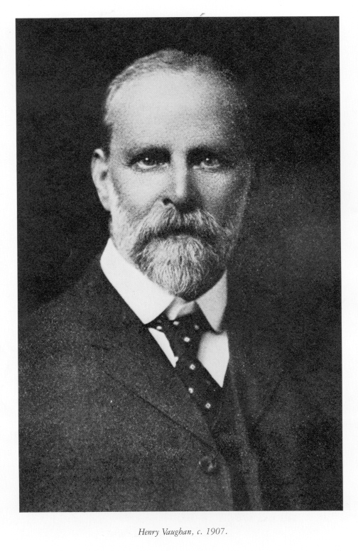 Henry Vaughan (architect), circa 1907.